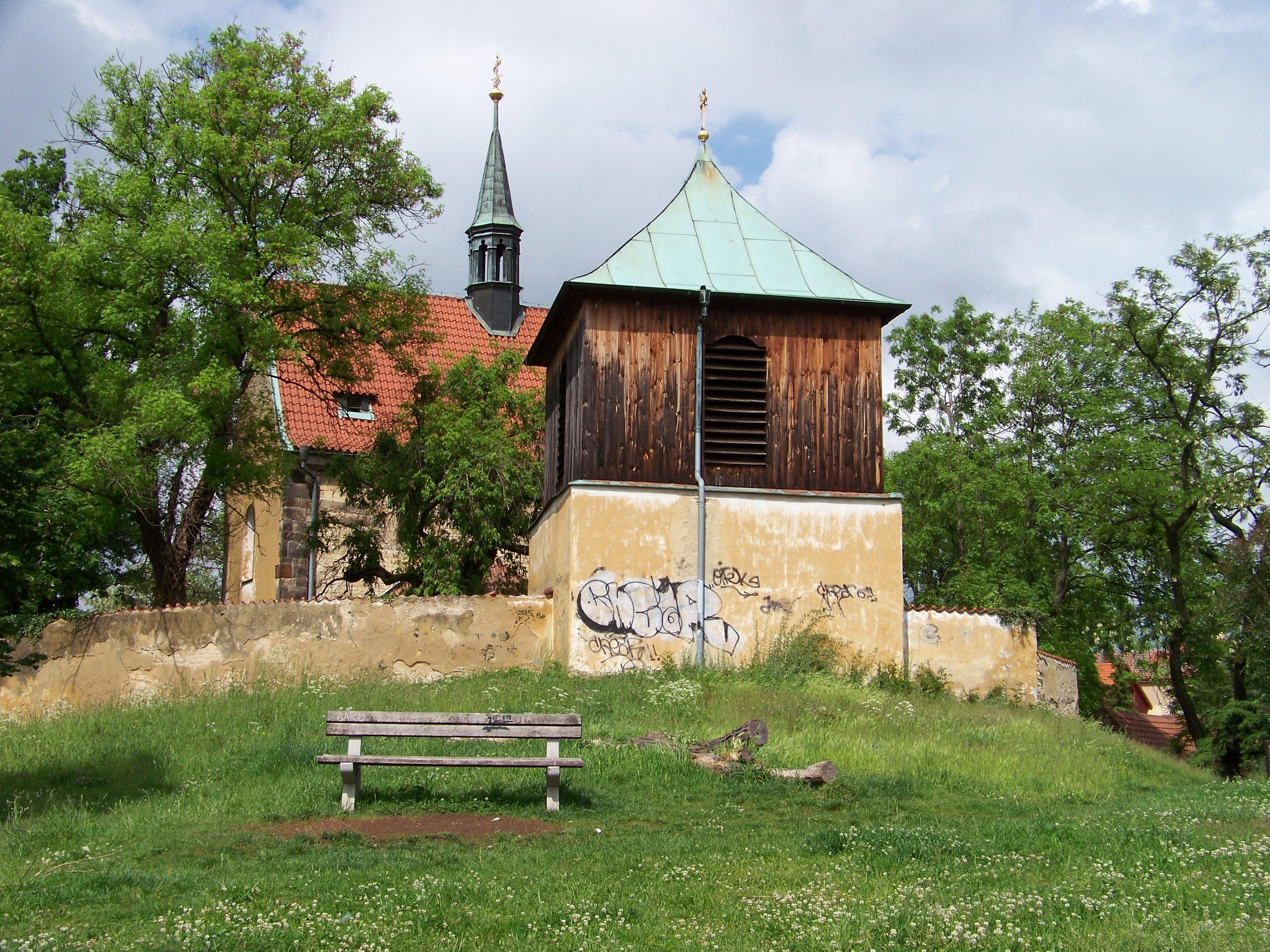 Prague-Dolní Chabry, Czech Republic. Bílenecké náměstí, Church of the Beheading of Saint John the Baptist with a wooden bell tower.